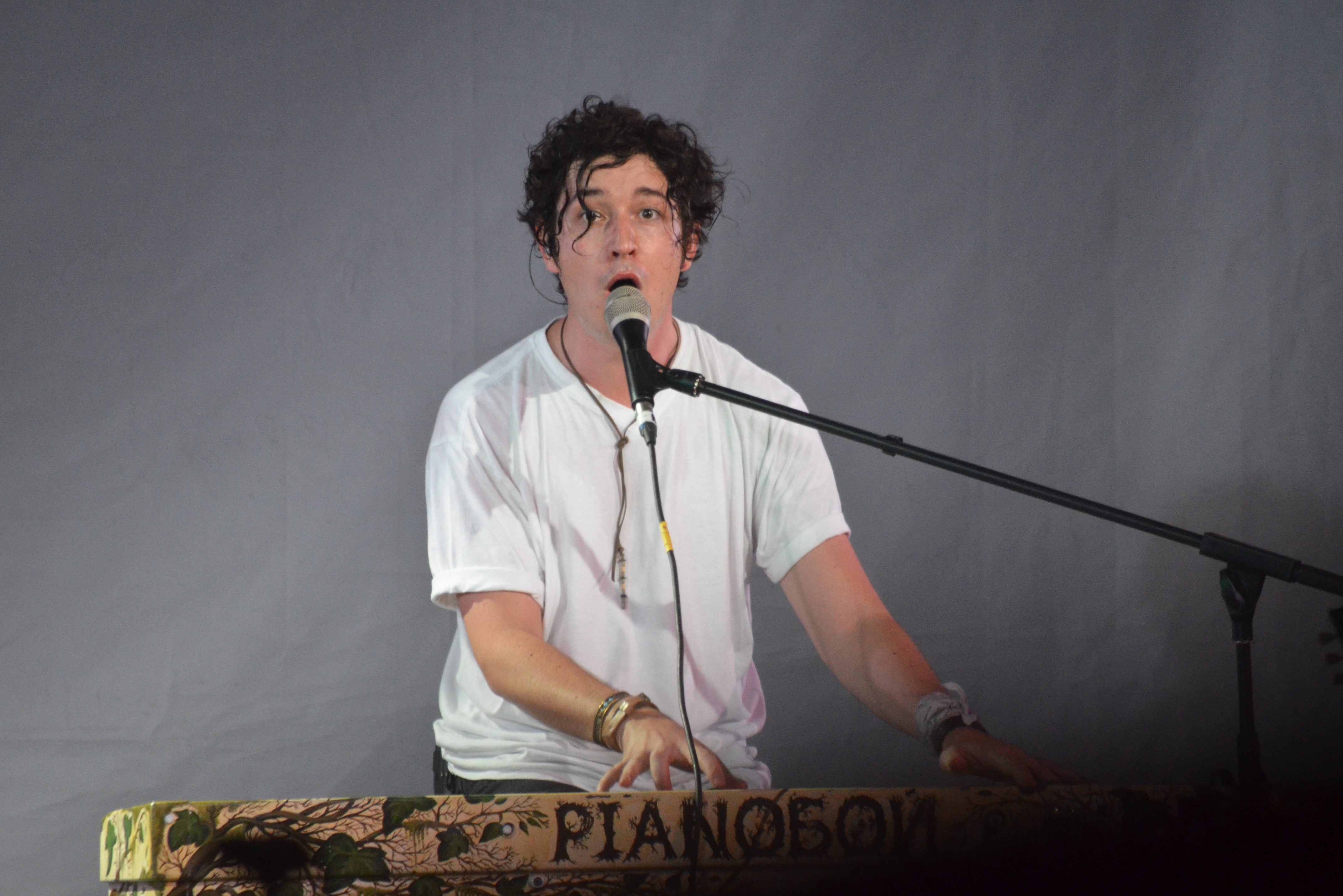 Pianoboy in the Green Theatre